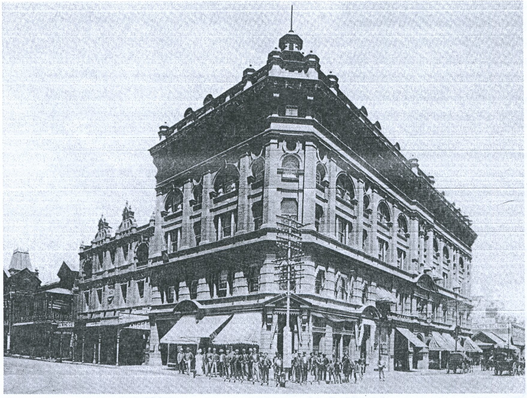 This is the Victory house in Marshallstown Johannesburg South Africa, it is part of the archived works from the Johannesburg Heritage Foundation given to Joburgpedia and other Wikimedia projects.